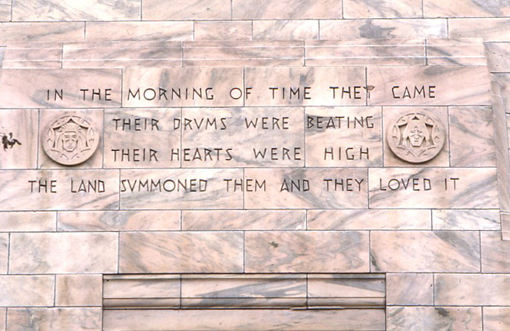 photo by Einar Einarsson Kvaran aka Carptrash 00:40, 26 October 2006 (UTC) . Inscription by Hartley Burr Alexander on the Joslyn Art Museum, Omaha, Nebraska